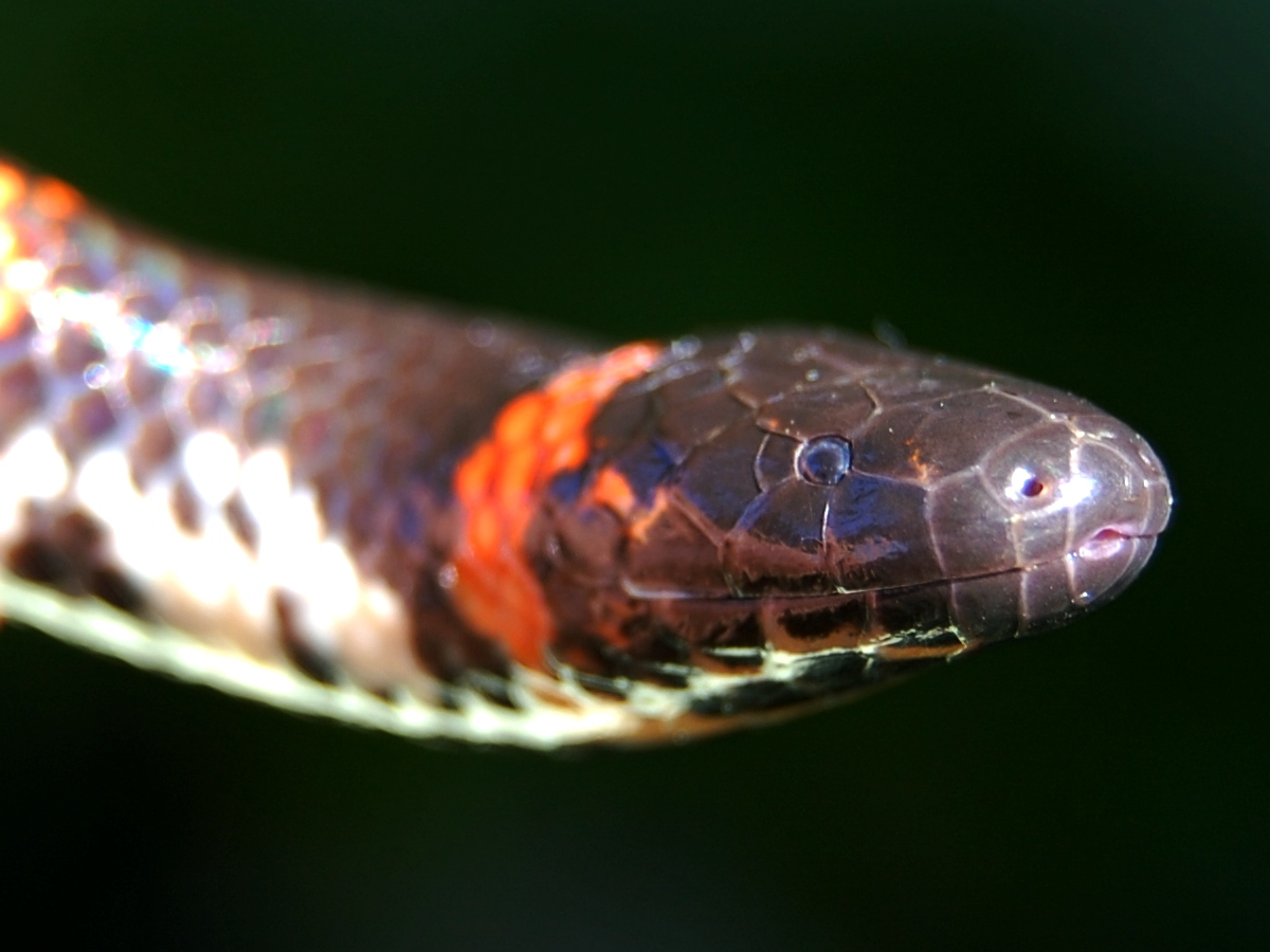 Javan pipe-snake, Cylindrophis ruffus; from Bogor, West Java, Indonesia. Head close up, showing its head scalation.